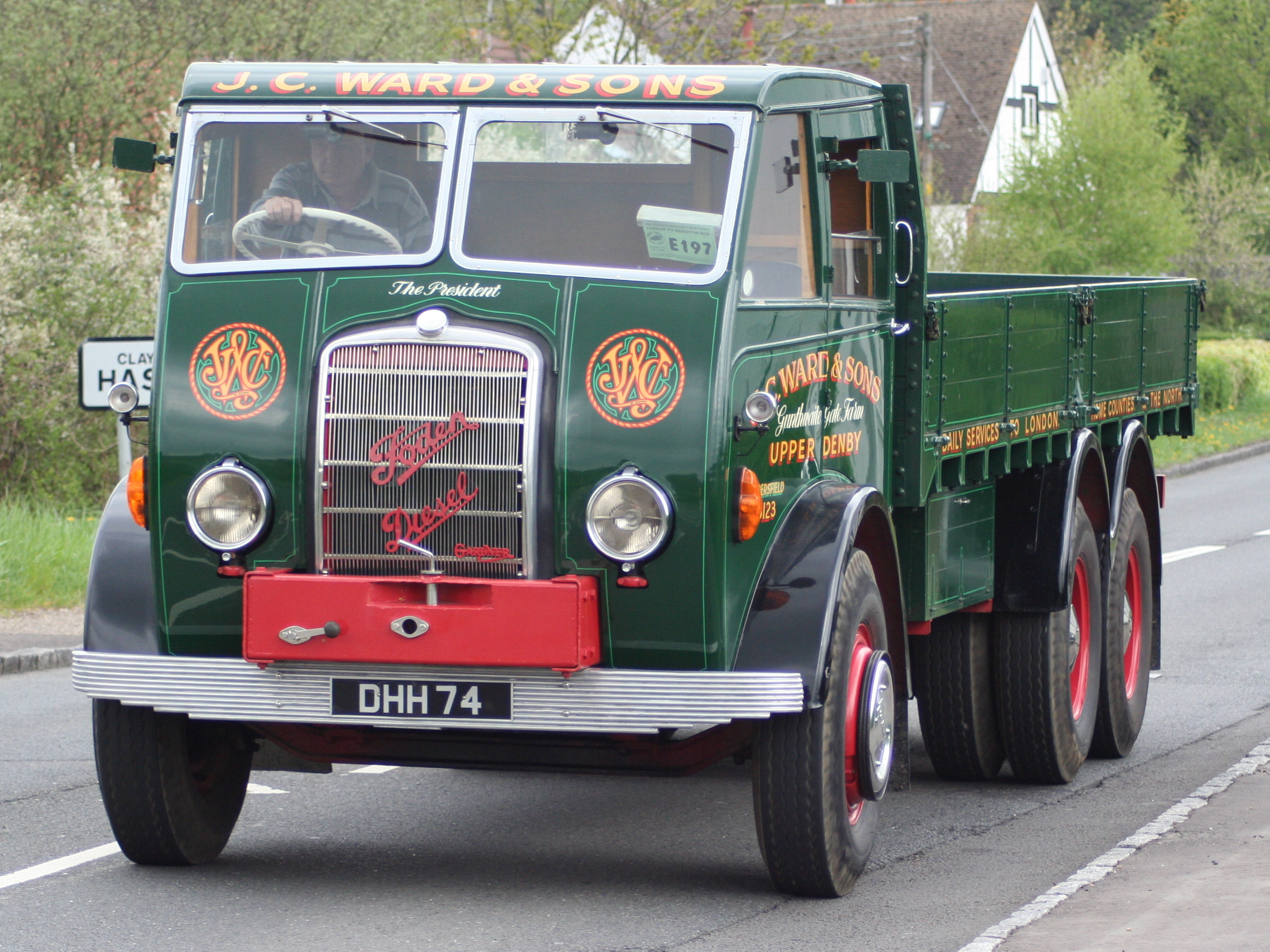 Foden DG6/20